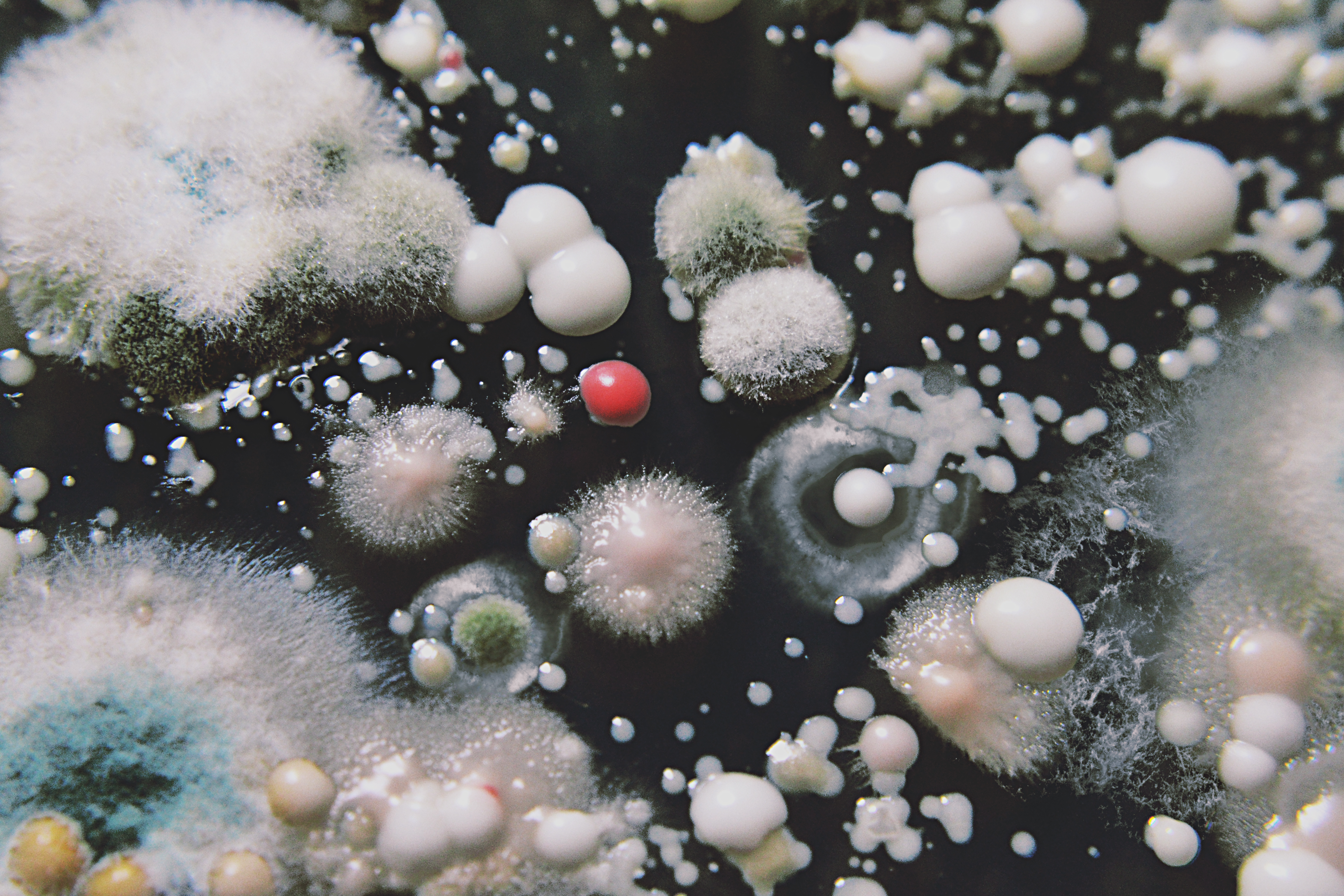 This Bioart project aims to present an alternative portrayal of my family members. The final outcome takes its form through the microbes cultivated in petri dishes where the sample was taken from my family’s fingertips. The cultivation period lasted 3 weeks and it was done in nutrient agar. Consequently, I decided to conduct by myself a microbial culture and shoot macro-photos of it in an attempt to capture the enthralling beauty of the parallel microbial universe. For more info press the link.